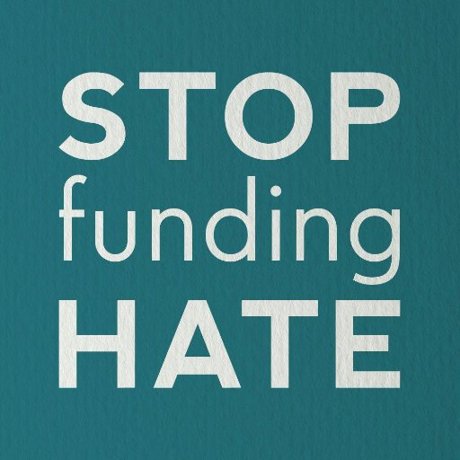 The logo for online campaign group Stop Funding Hate.